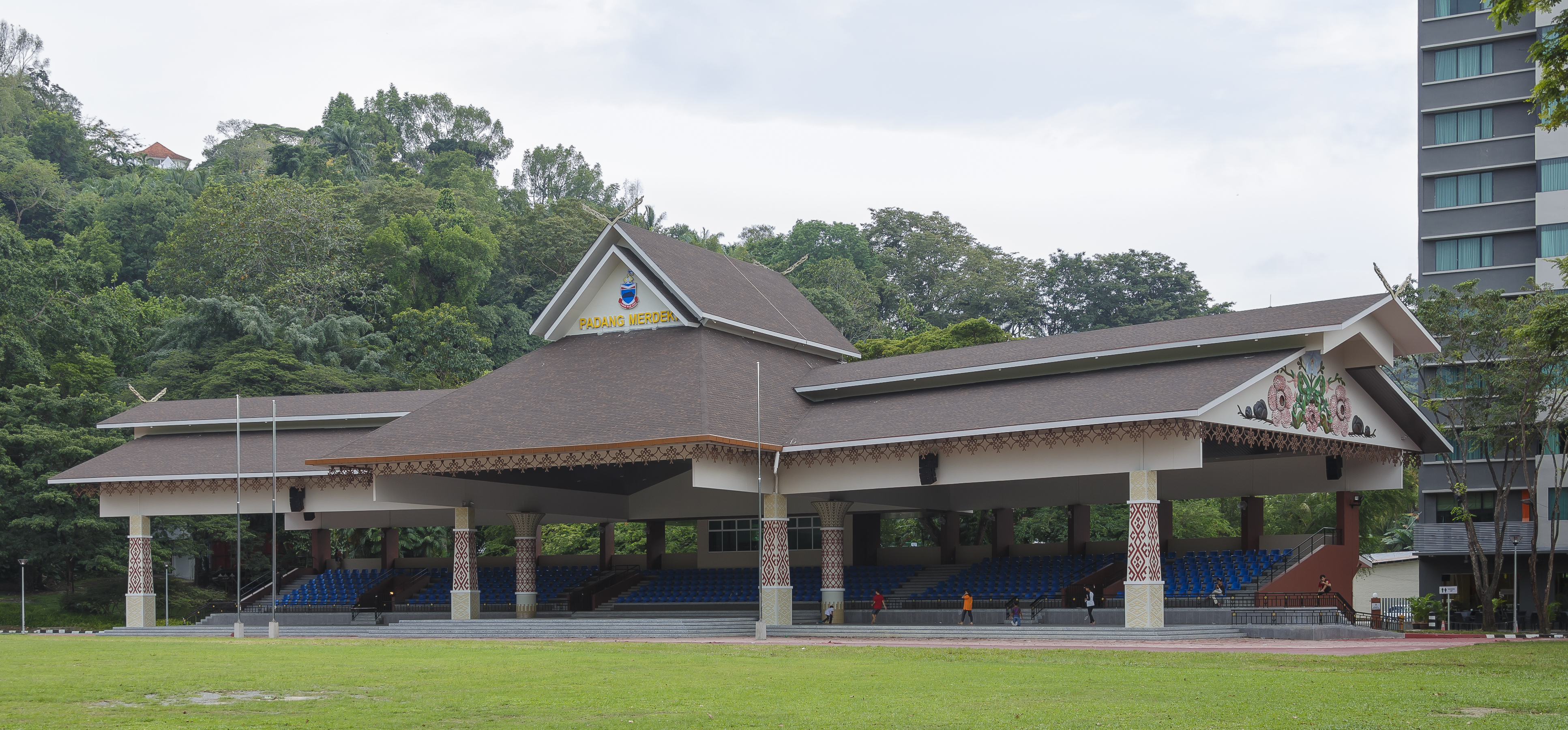 Kota Kinabalu, Sabah: Padang Merdeka (new building since 2014)